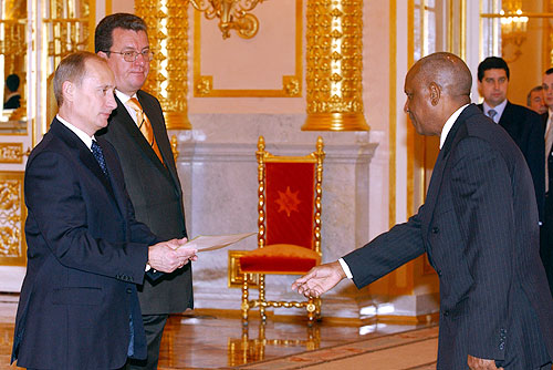 St Alexander Hall, Grand Kremlin Palace, Moscow. Ambassador of the Republic of Senegal Muntaga Diallo presents his letters of credential. Beside President Putin is Presidential Aide Sergei Prikhodko. .